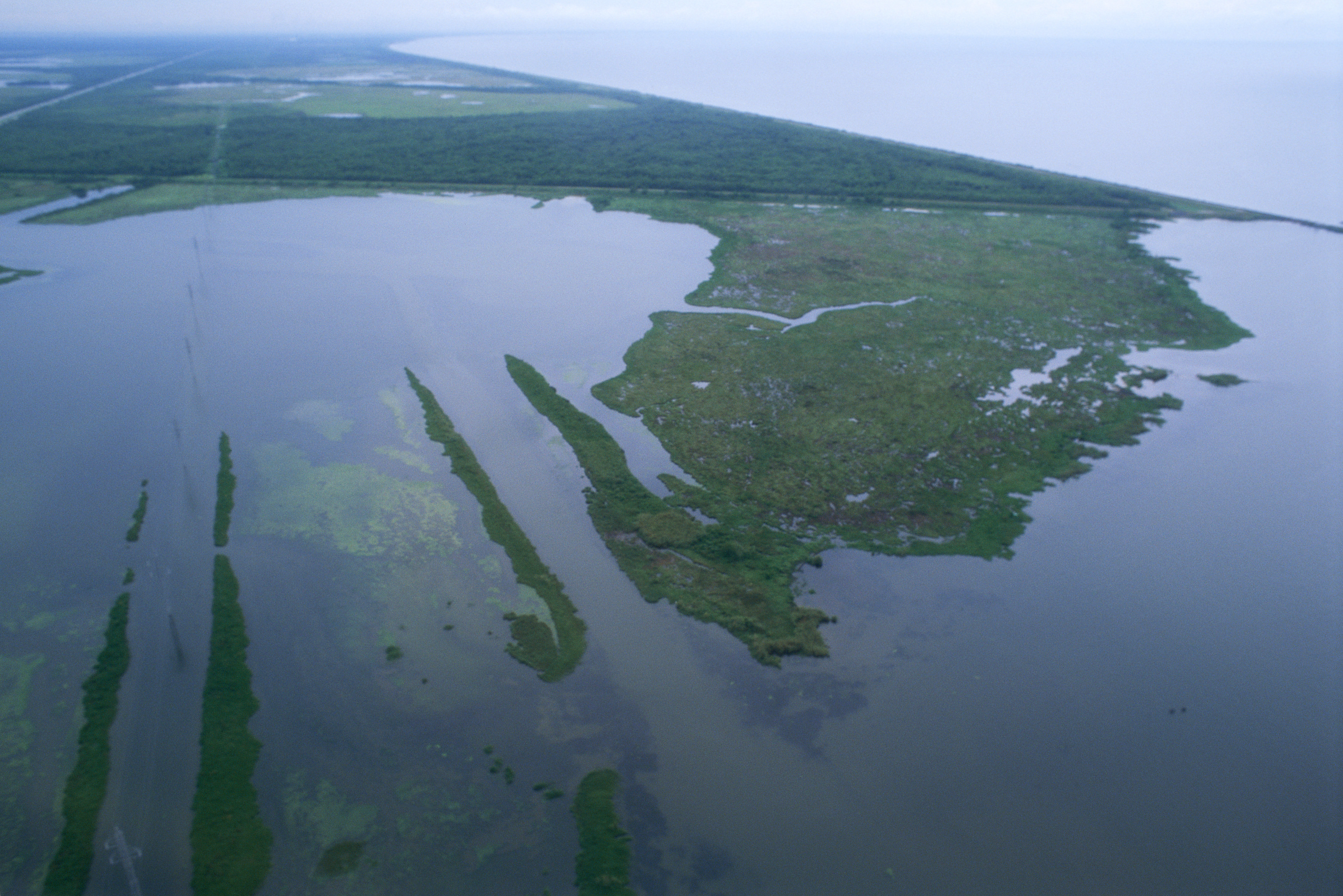 Aerial view of Louisiana wetlands